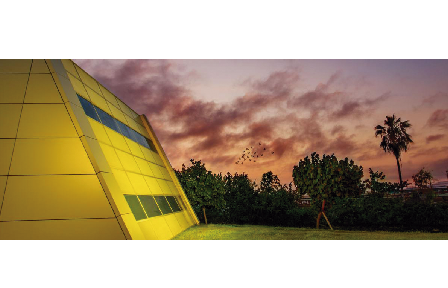 Campus Villa I - Southern Scientific University